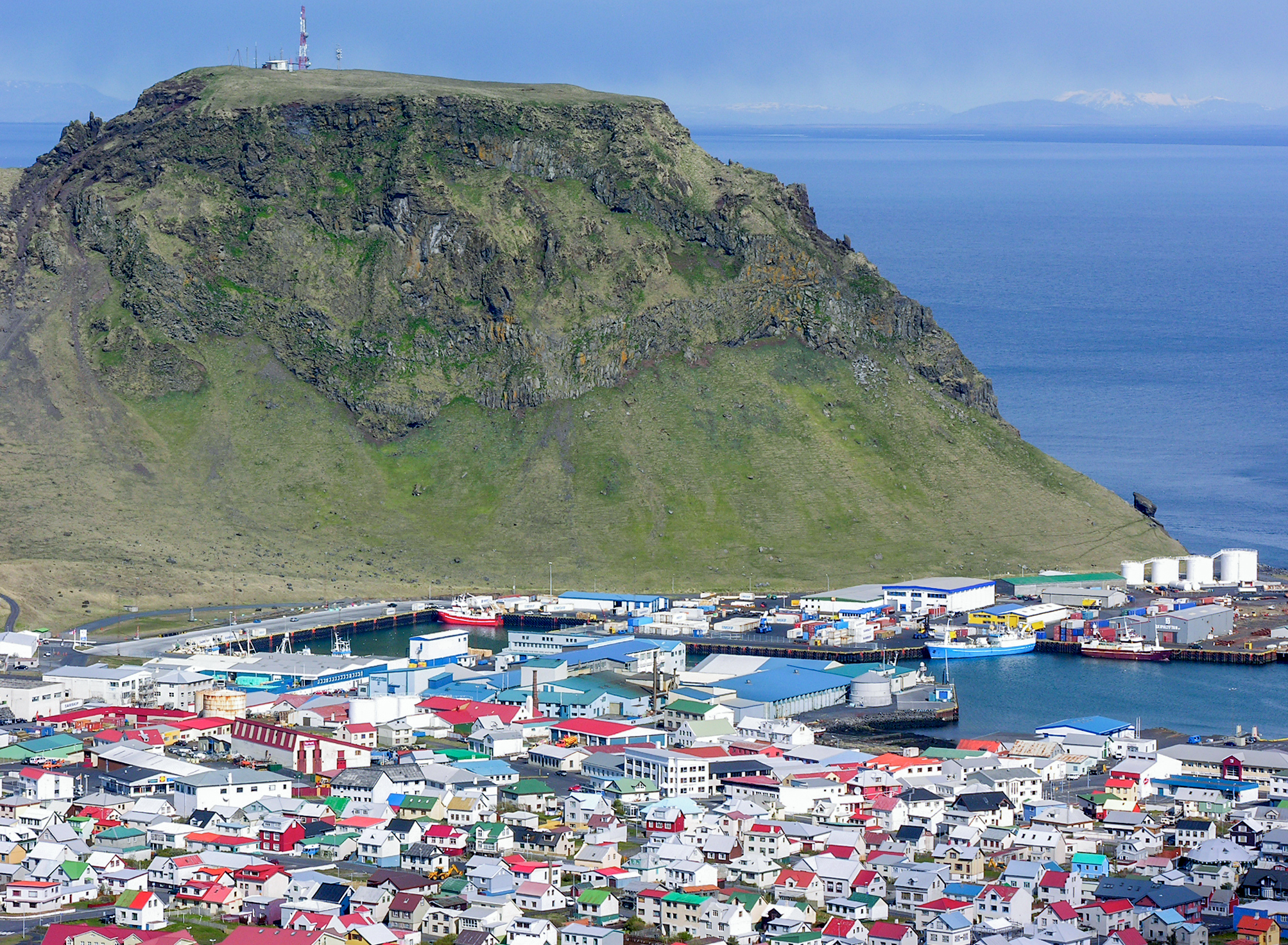 Iceland, Heimaey